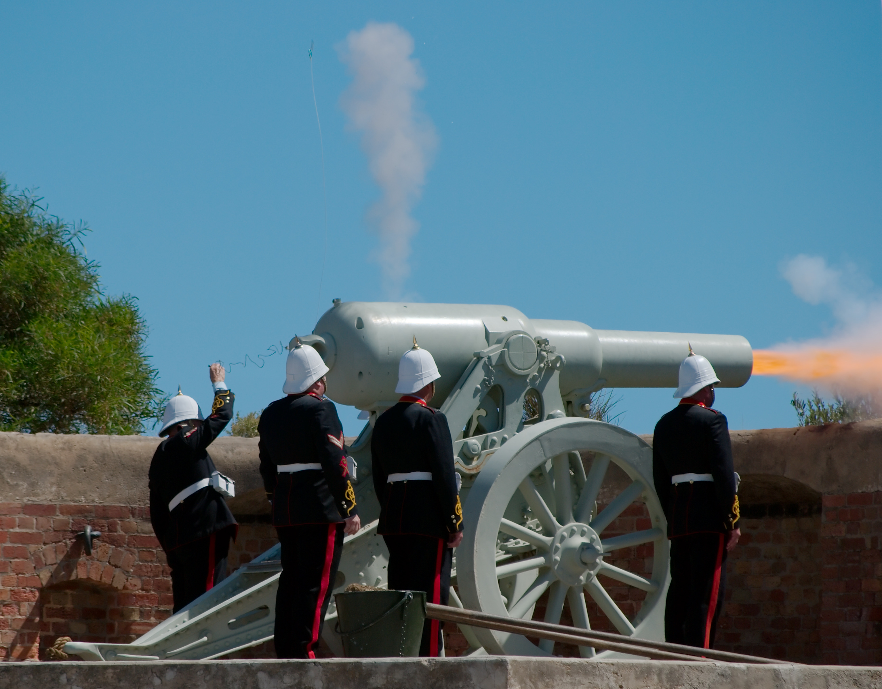 64 pounder, 64 cwt, Rifled Muzzle Loading Mk3 (1867 pattern) gun firing. The gun was manufactured by the Royal Gun Factory, Woolwich, England. Historical display by volunteers at Fort Glanville, South Australia.